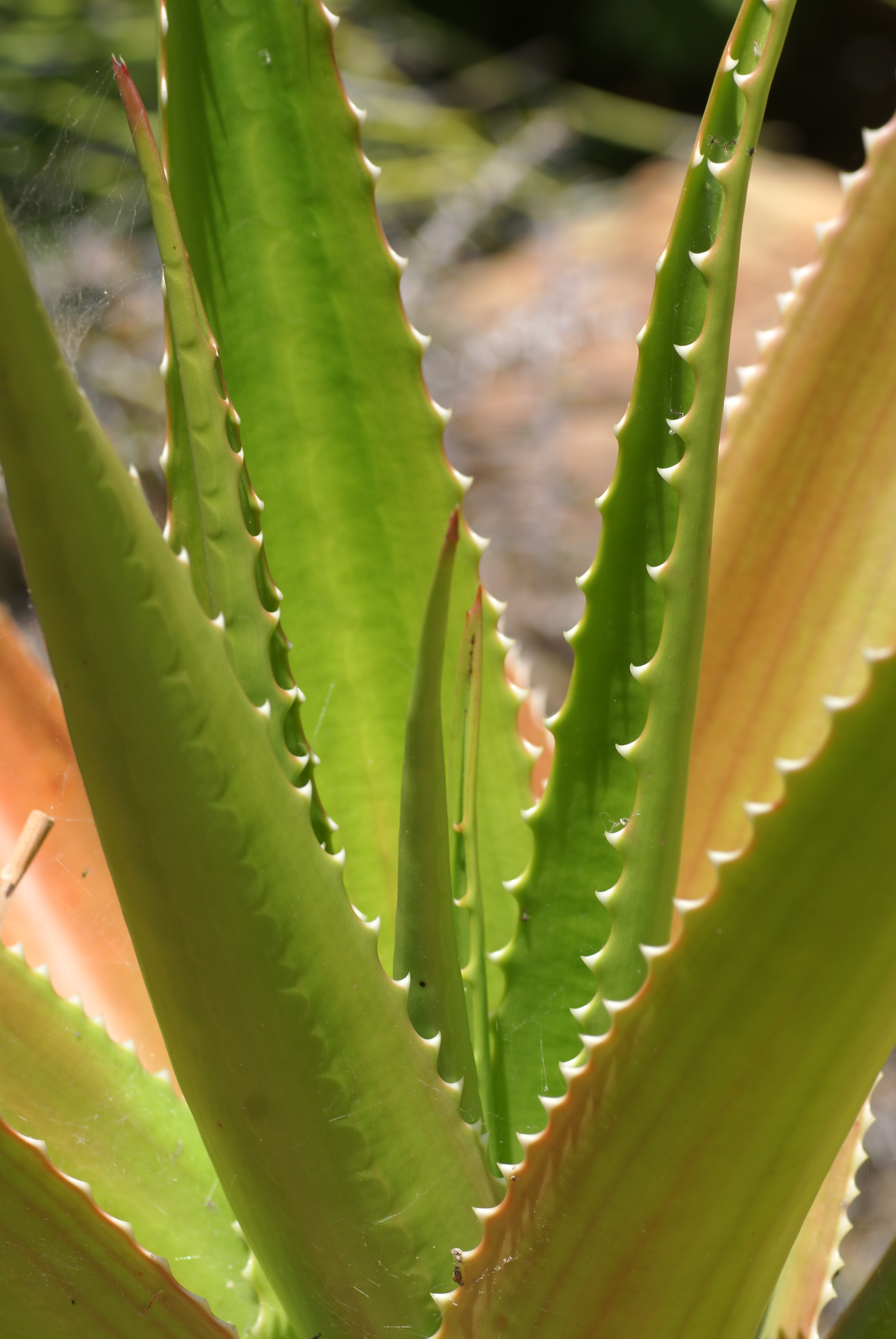 Plant species Aloe vaombe in Parque de la Paloma in Benalmadena, Spain